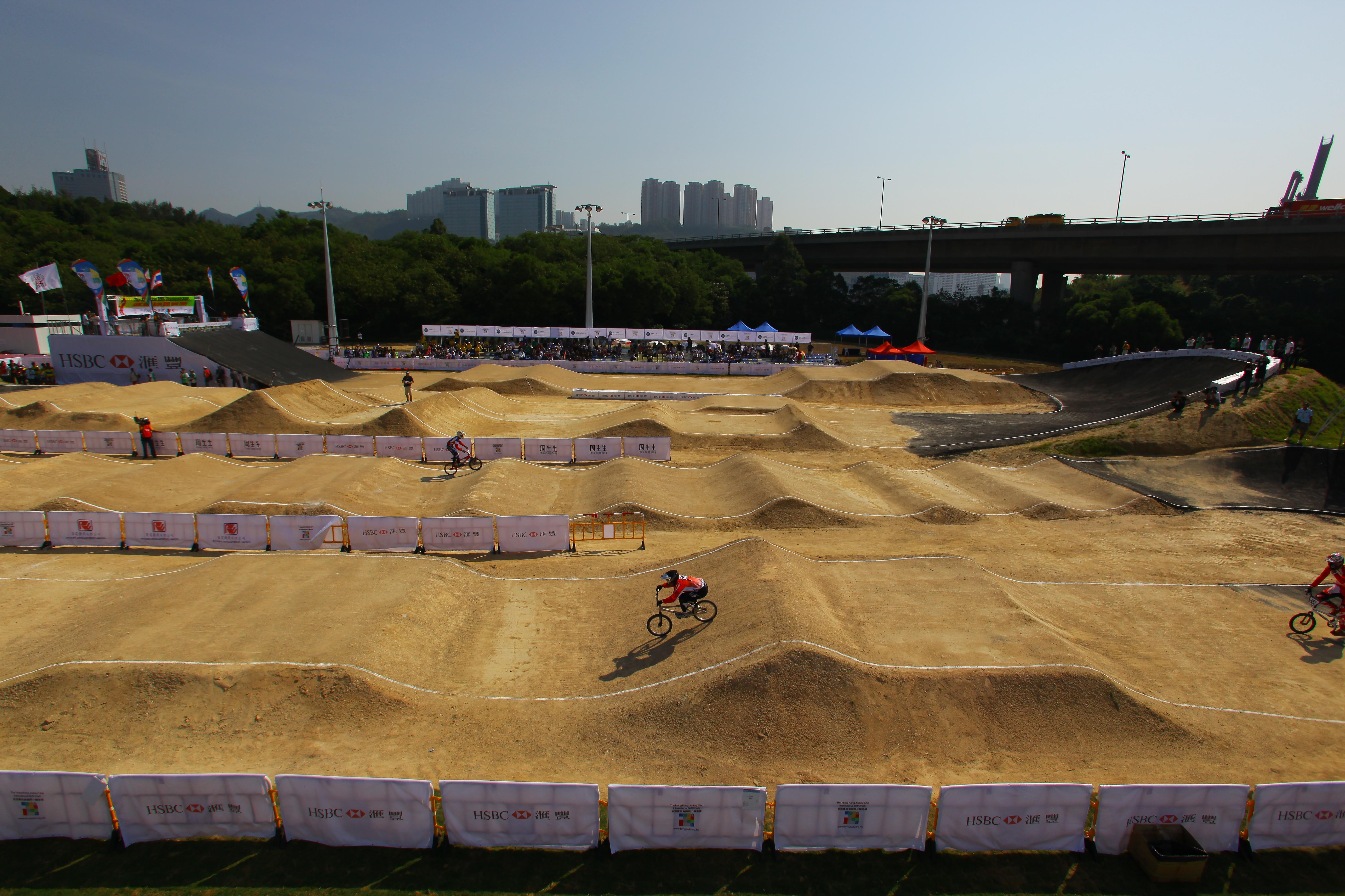 International Standard Track